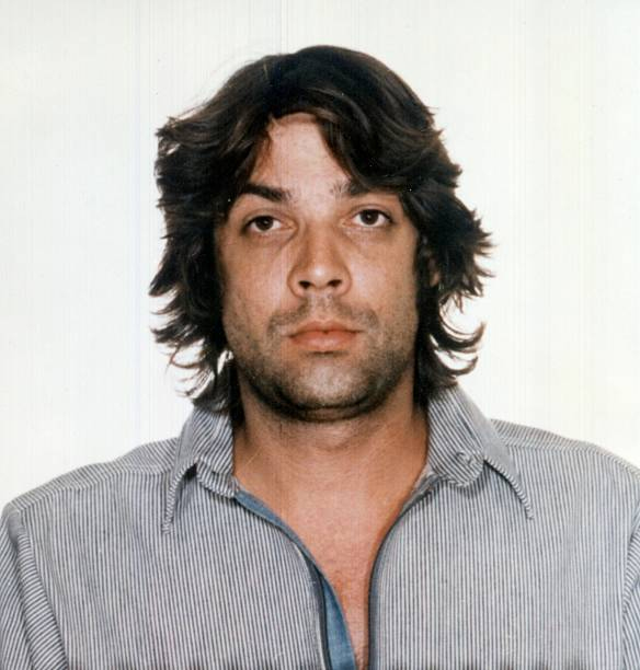 Clipping from the mug shot of Christian Brando after being arrested for the killing of Dag Drollet in May 1990